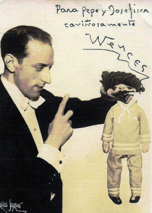 Early photo of Señor Wences. Taken by Maurice Seymour in his Chicago studio, it depicts a young Wences with an early version of Johnny, the hand puppet he became famous with. This appears to have been signed by Wences for a fan as it translates to: "For Pepe and Josefina, affectionately (or with love), Wences." and dated at the bottom by him as having been written in Milwaukee, Wisconsin, 26 October 1935.